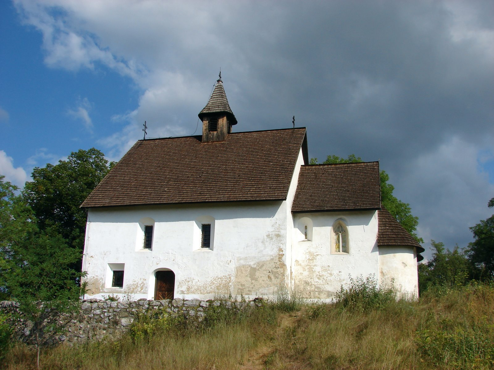 Medieval twin sanctuary church in Tornaszentandrás